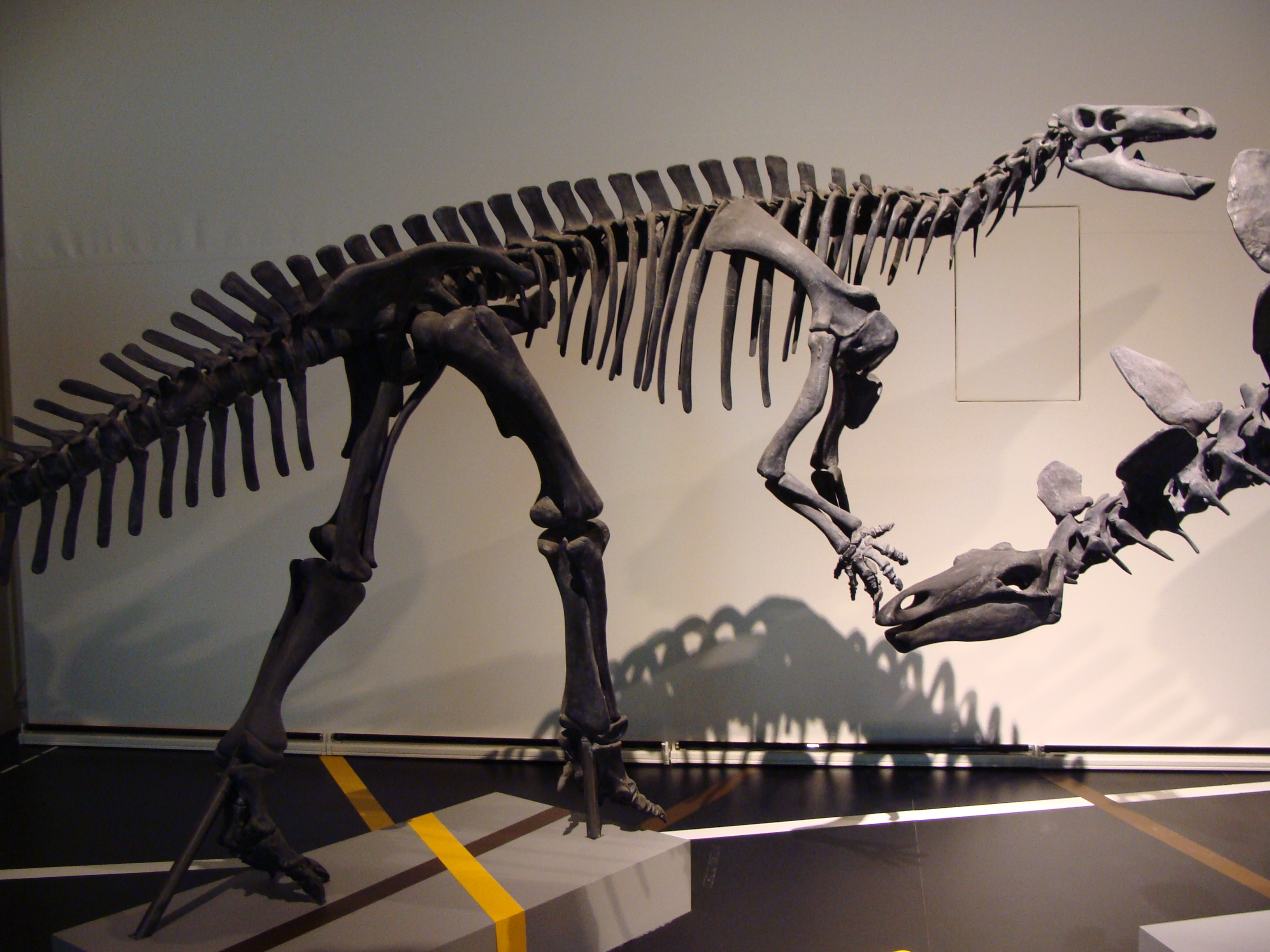 Theiophytalia kerri skull on Camptosaurus dispar skeleton, in Museo Nacional de Ciencias Naturales, Madrid.